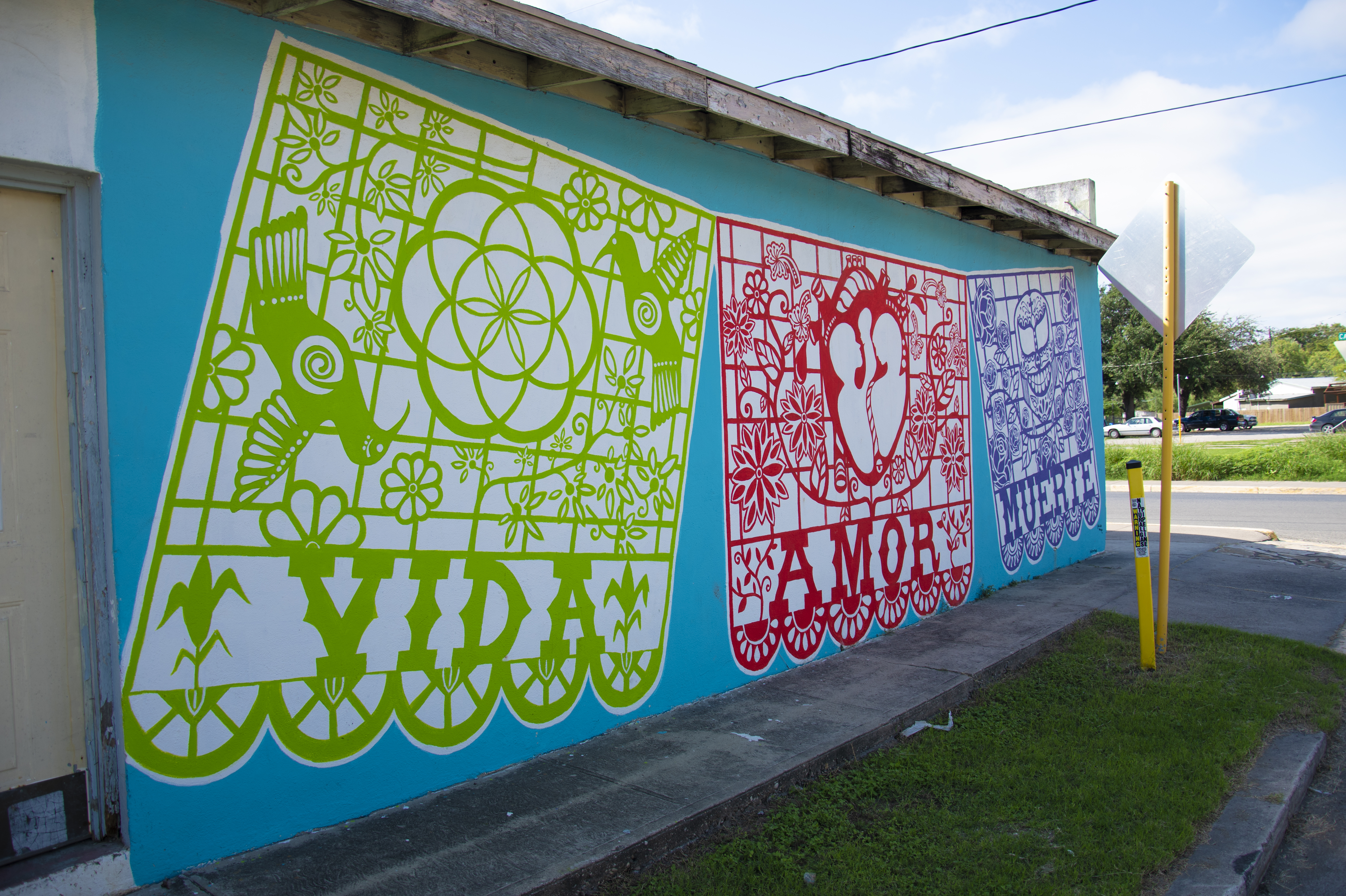 Mural Near Casa De La Cultura